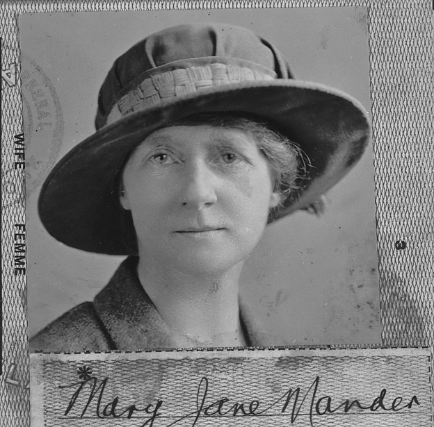 Head and shoulders portrait of Jane Mander wearing a hat Please acknowledge 'Sir George Grey Special Collections, Auckland Libraries, 7-A11854' when re-using this image.